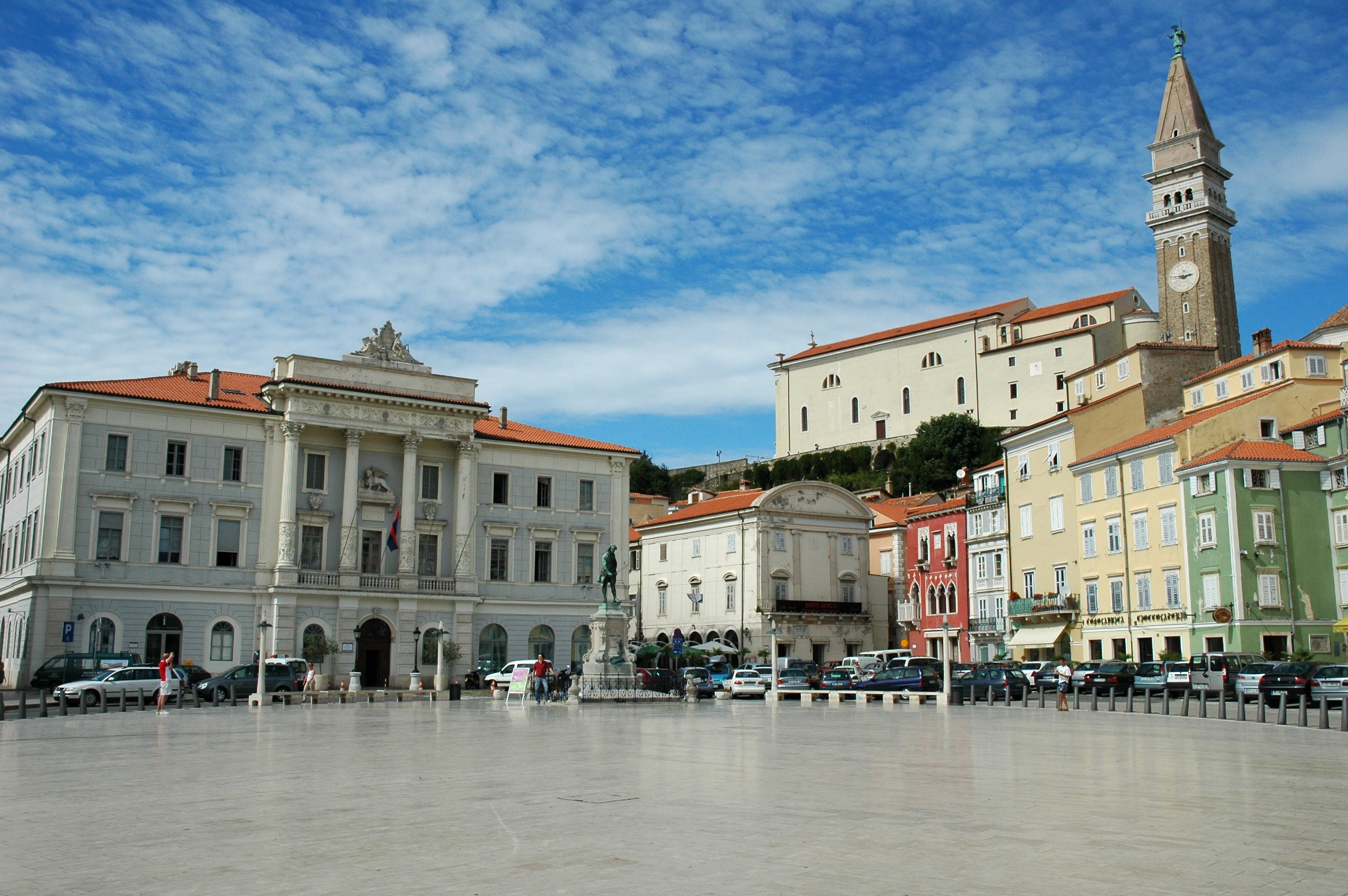 Tartinjev Trg.